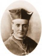 Portrait of Manuel Fernández de Castro y Menéndez Hevia.